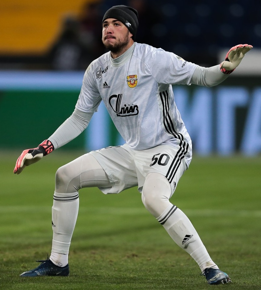 Yegor Shamov with FC Arsenal Tula in a game against PFC CSKA Moscow.